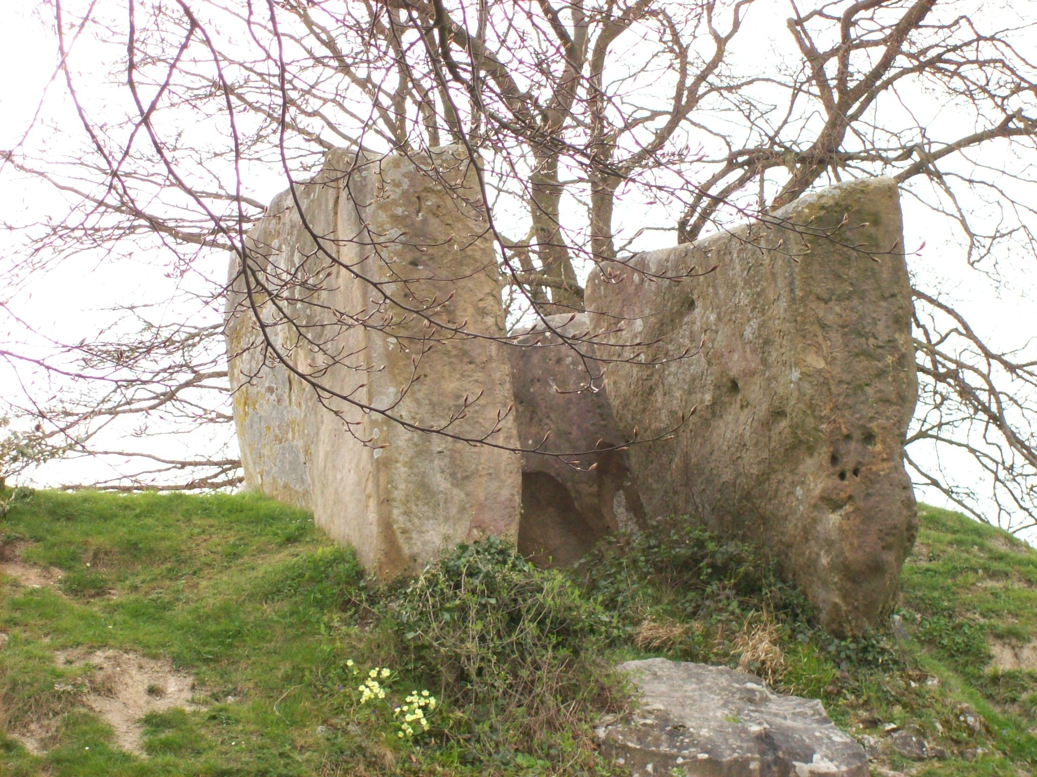 Coldrum Long Barrow, Kent